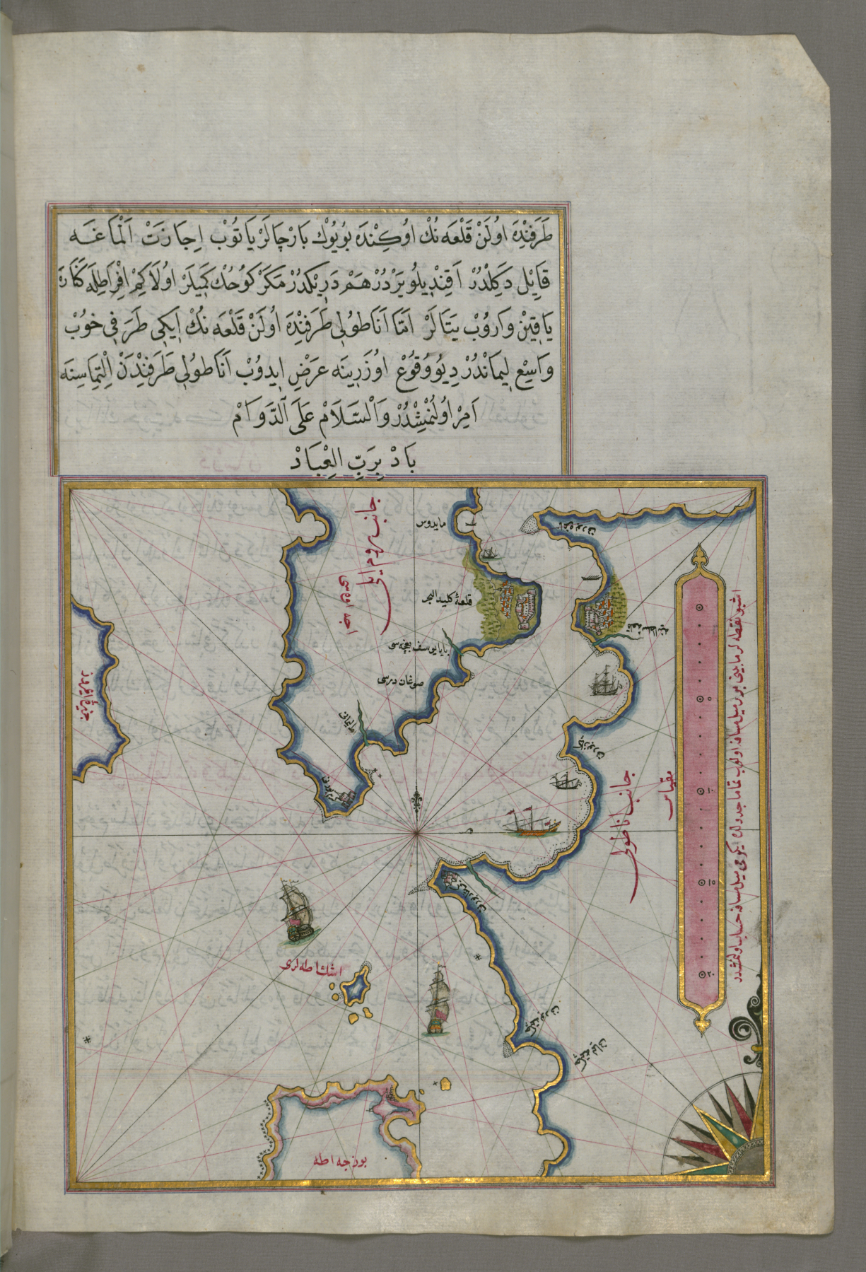 This folio from Walters manuscript W.658 contains a map of the Upper Aegean Sea with the islands of Imbros (Imroz, Gökçeada) and Bozca (Tenedos).